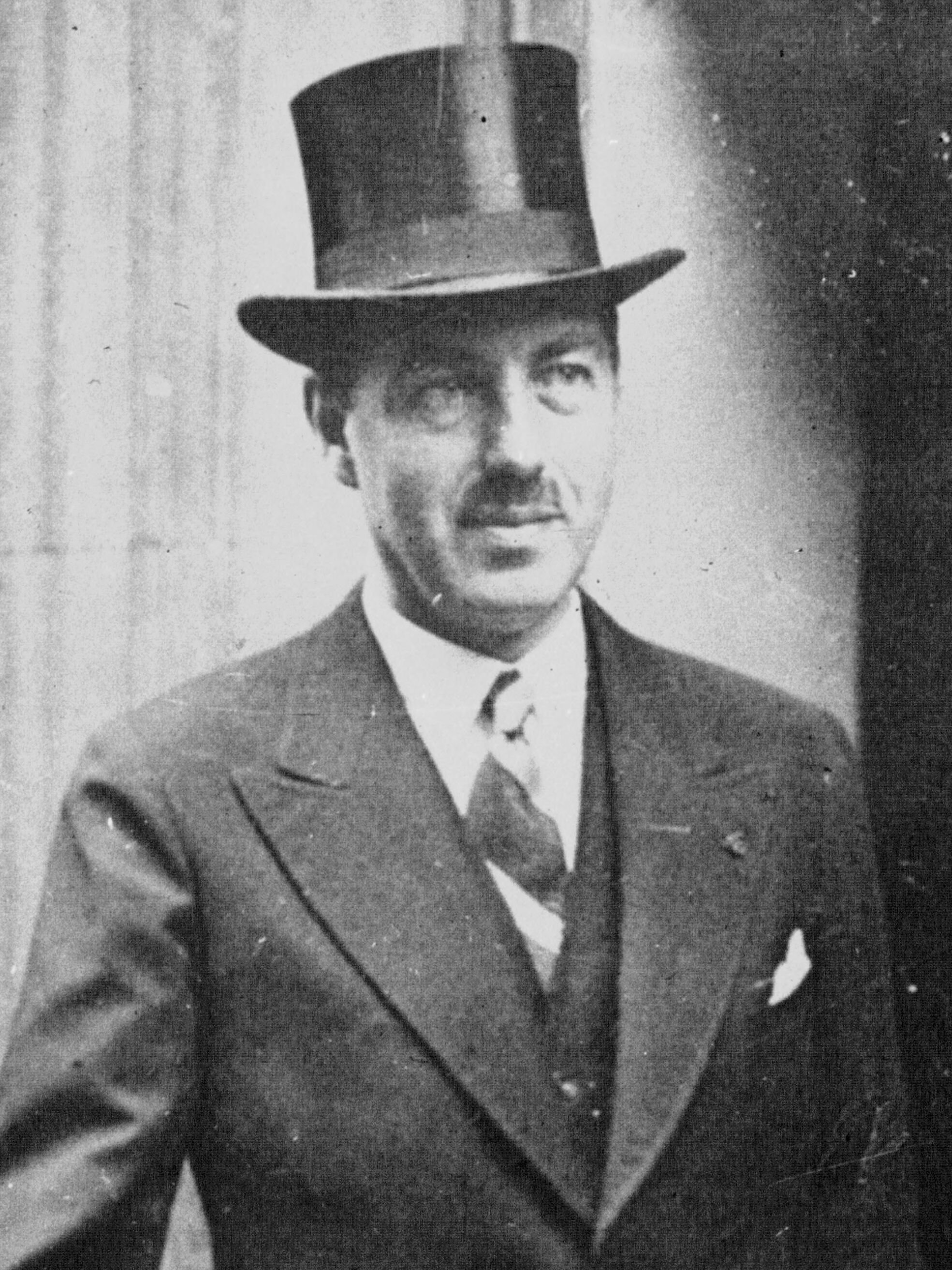 Belgian Prime Minister Paul van Zeeland (1893-1973).